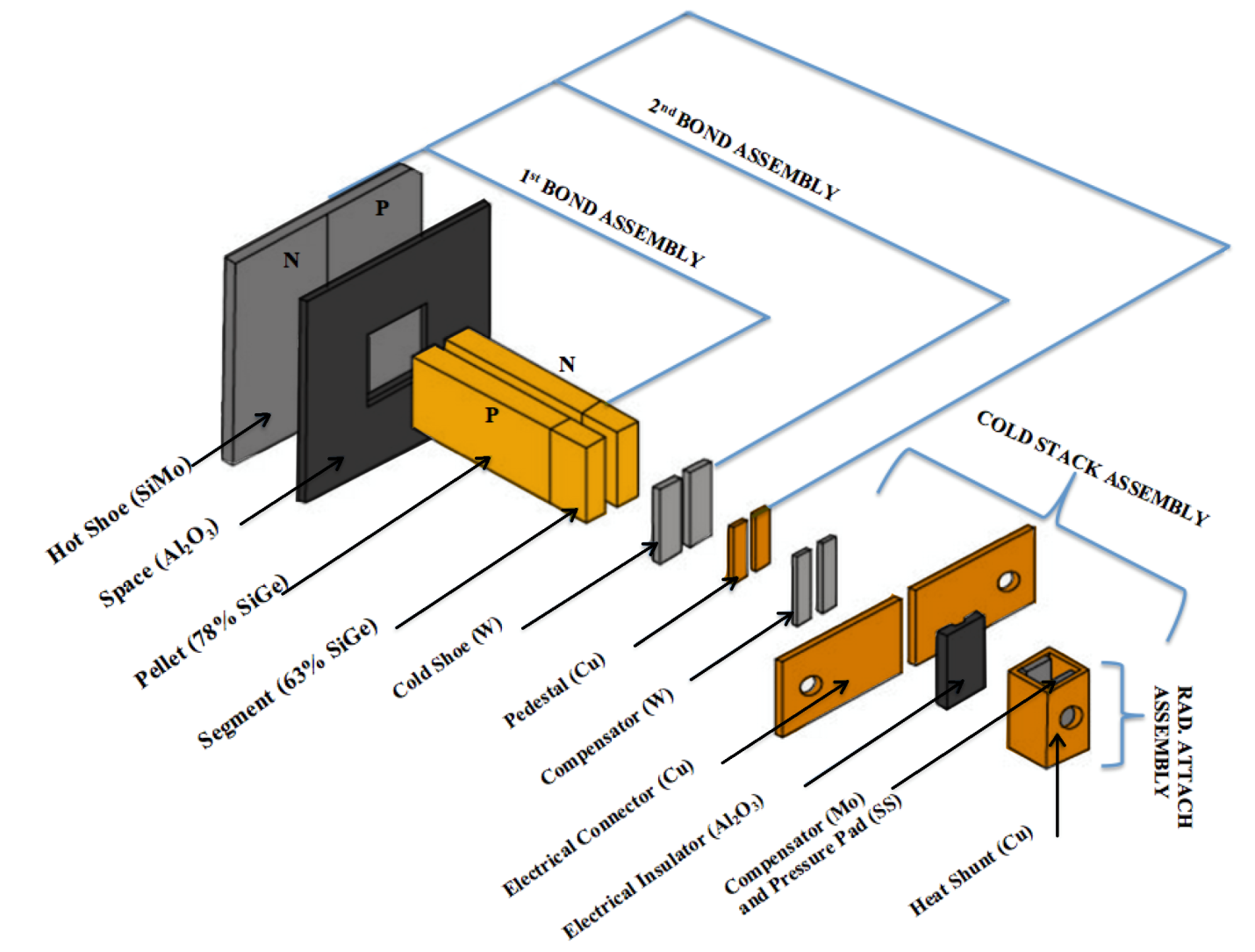 This diagram depicts the construct components of the SiGe unicouple. The multifoil cold stack assembly, composed of molybdenum, tungsten, stainless steel, copper, and alumina materials, provides the insulation between the electrical and thermal currents of the system. The SiGe n-leg doped with boron and SiGe p-leg doped with phosphorus act as the intermediary between the heat source and electrical assembly.